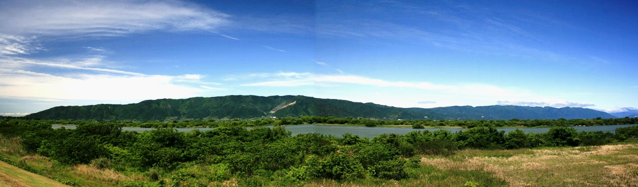 Yōrō Mountains from Kiso River on left side